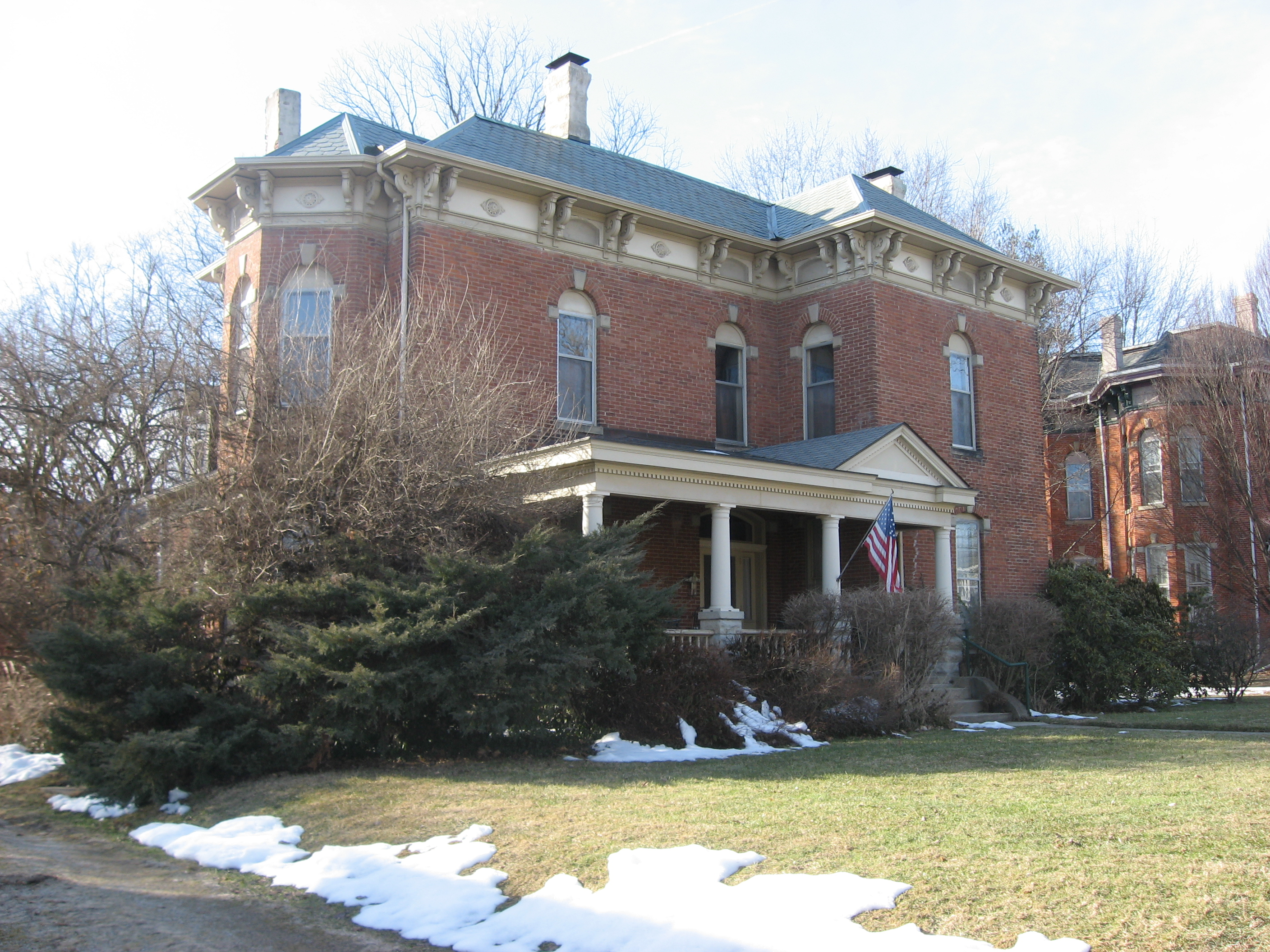 Front of the Wendell Lewis Willkie House, located at 601 N. Harrison Street in Rushville, Indiana, United States. Built in 1874 and later the home of Wendell Willkie, it is listed on the National Register of Historic Places.